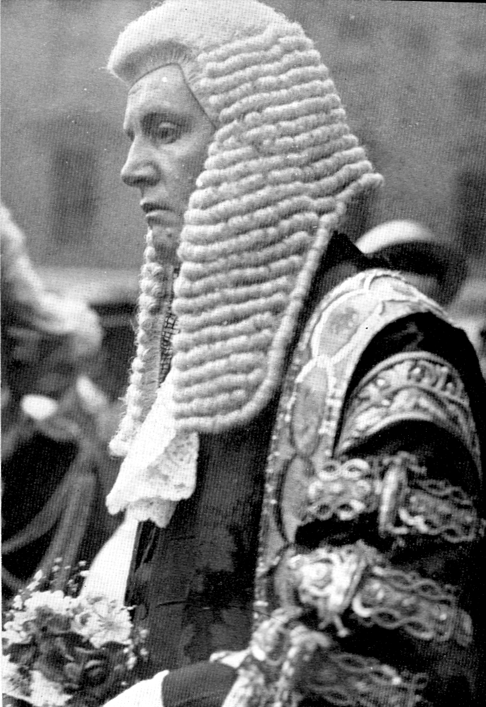 F. E. Smith, 1st Earl of Birkenhead on his appointment as Lord Chancellor of England & Wales